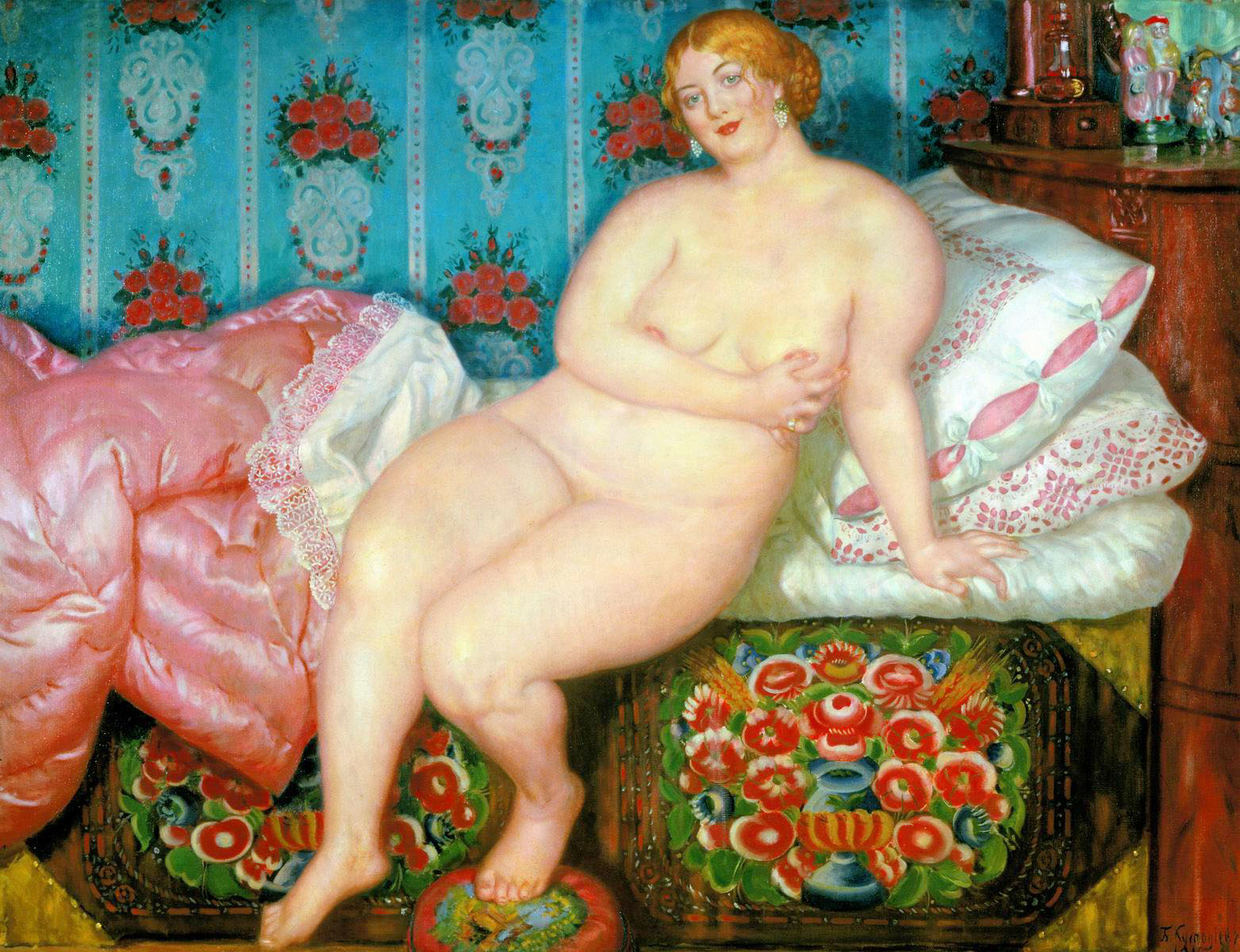 Boris Kustodiev's painting "Beauty" (1915).